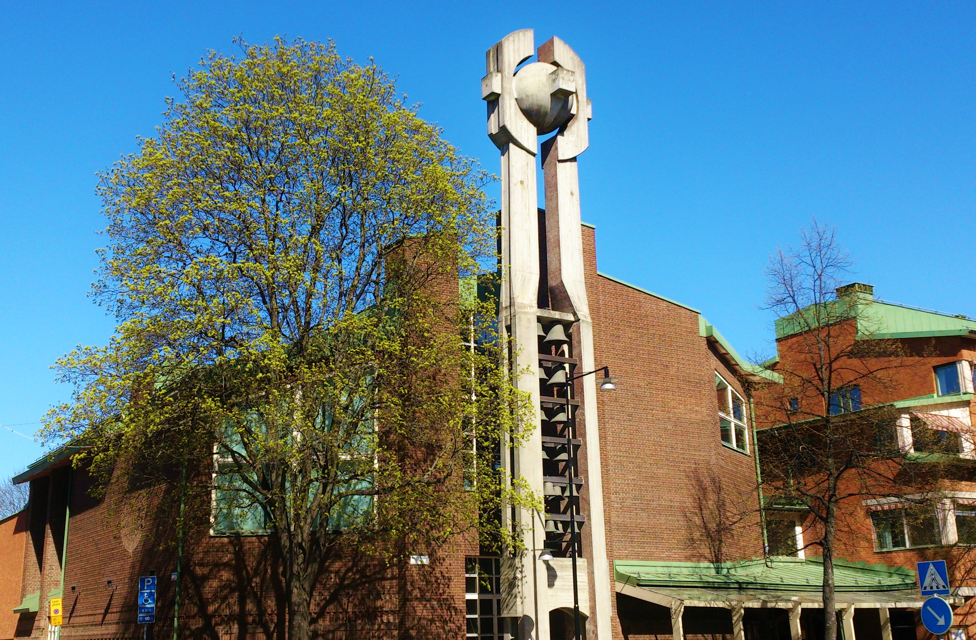 Missionskyrkan in Uppsala on April 23, 2014